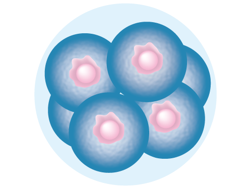 8-cell stage embryo. Images are from Togo picture gallery maintained by Database Center for Life Science (DBCLS).